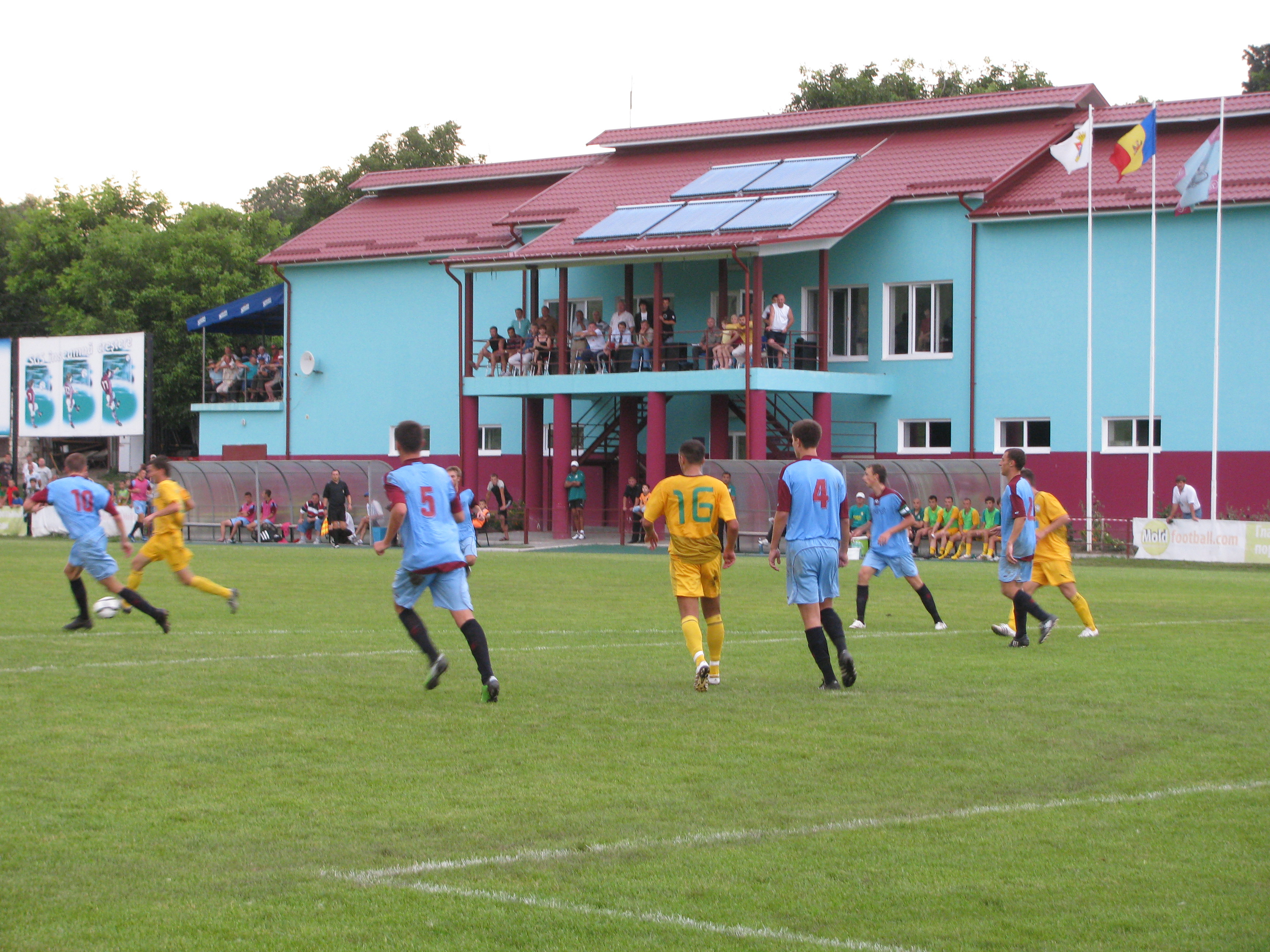 A photo of the Suruceni Stadium during a football match